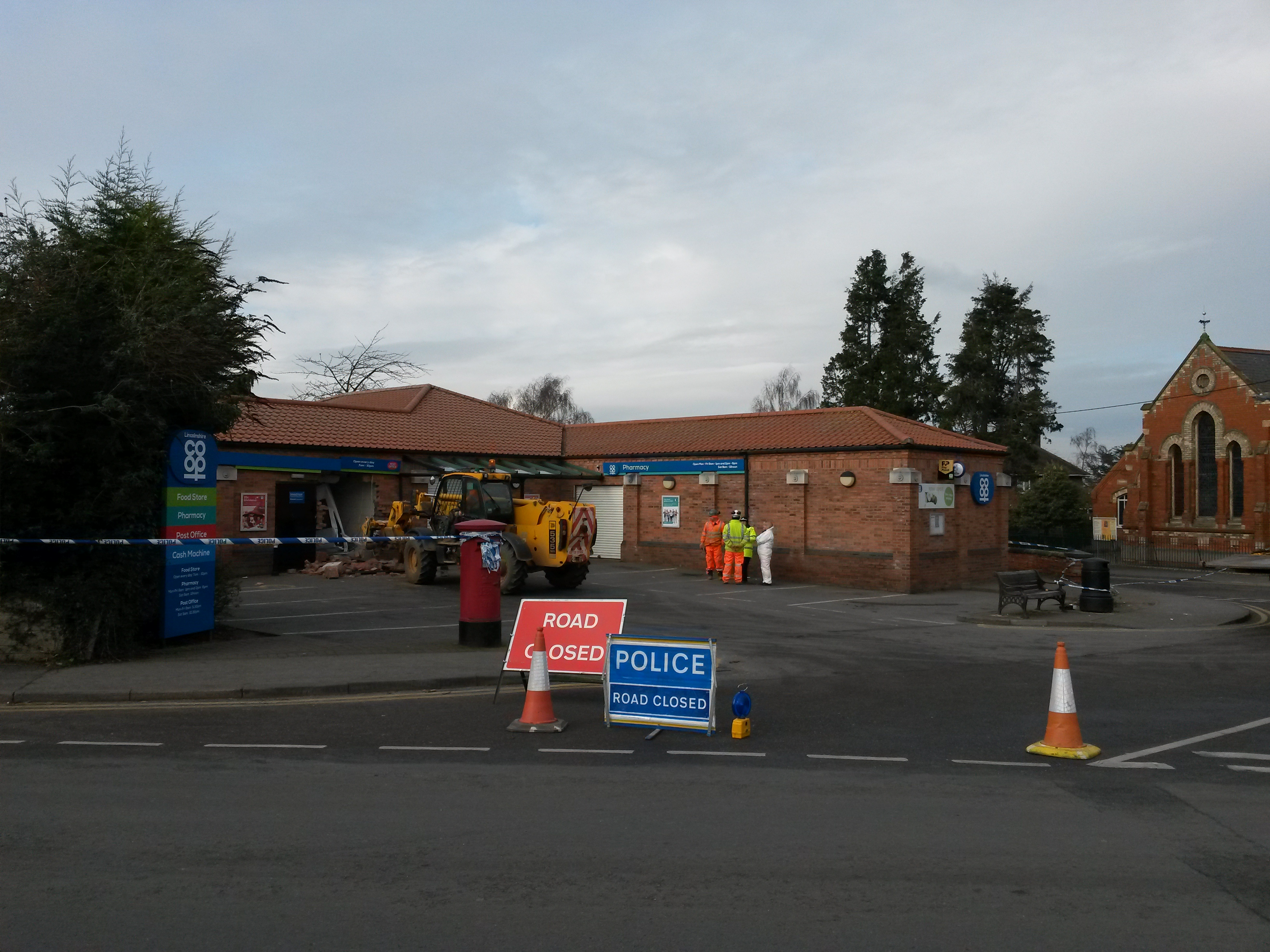 This image depicts the aftermath of an attempted robbery upon the Co-op using a JCB, in which one wall of the store was demolished.